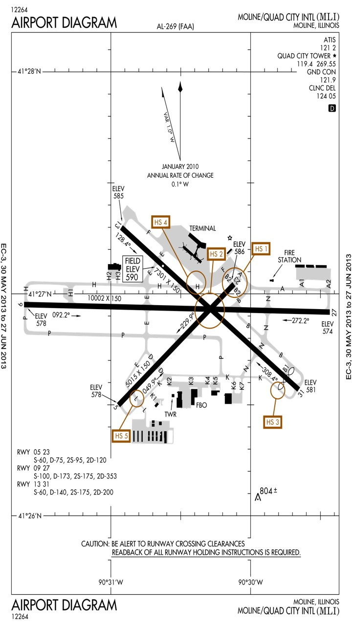 FAA airport diagram for Quad City International Airport (MLI) in Moline, Illinois, United States.